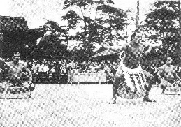 Chiyonoyama Masanobu (Dohyō-iri in Meiji Jingu, Shrine (June 8, 1951)).